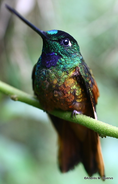 Shallow evolutionary divergence between two Andean hummingbirds: Speciation with gene flow?